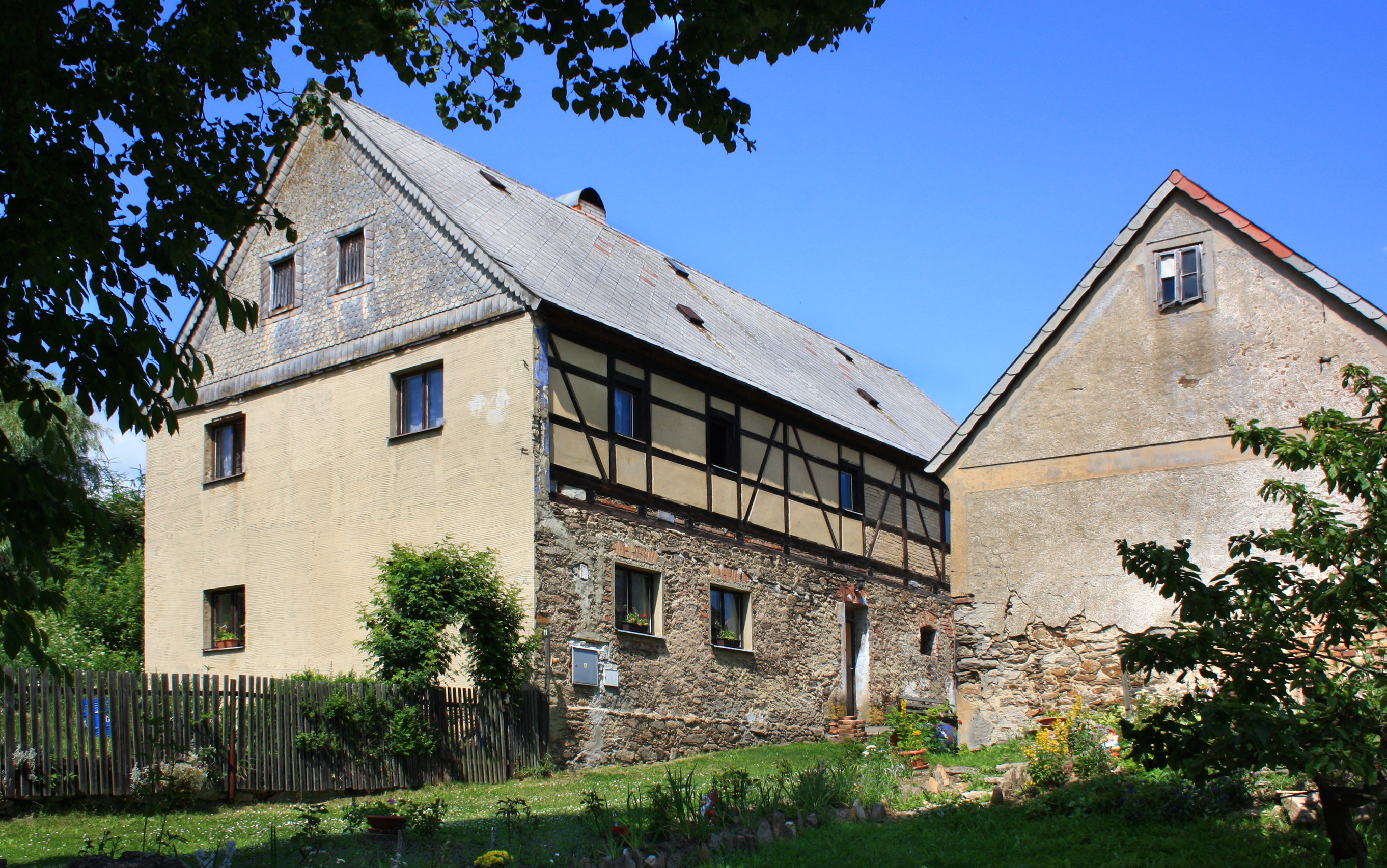 North part of Blatno, Czech Republic